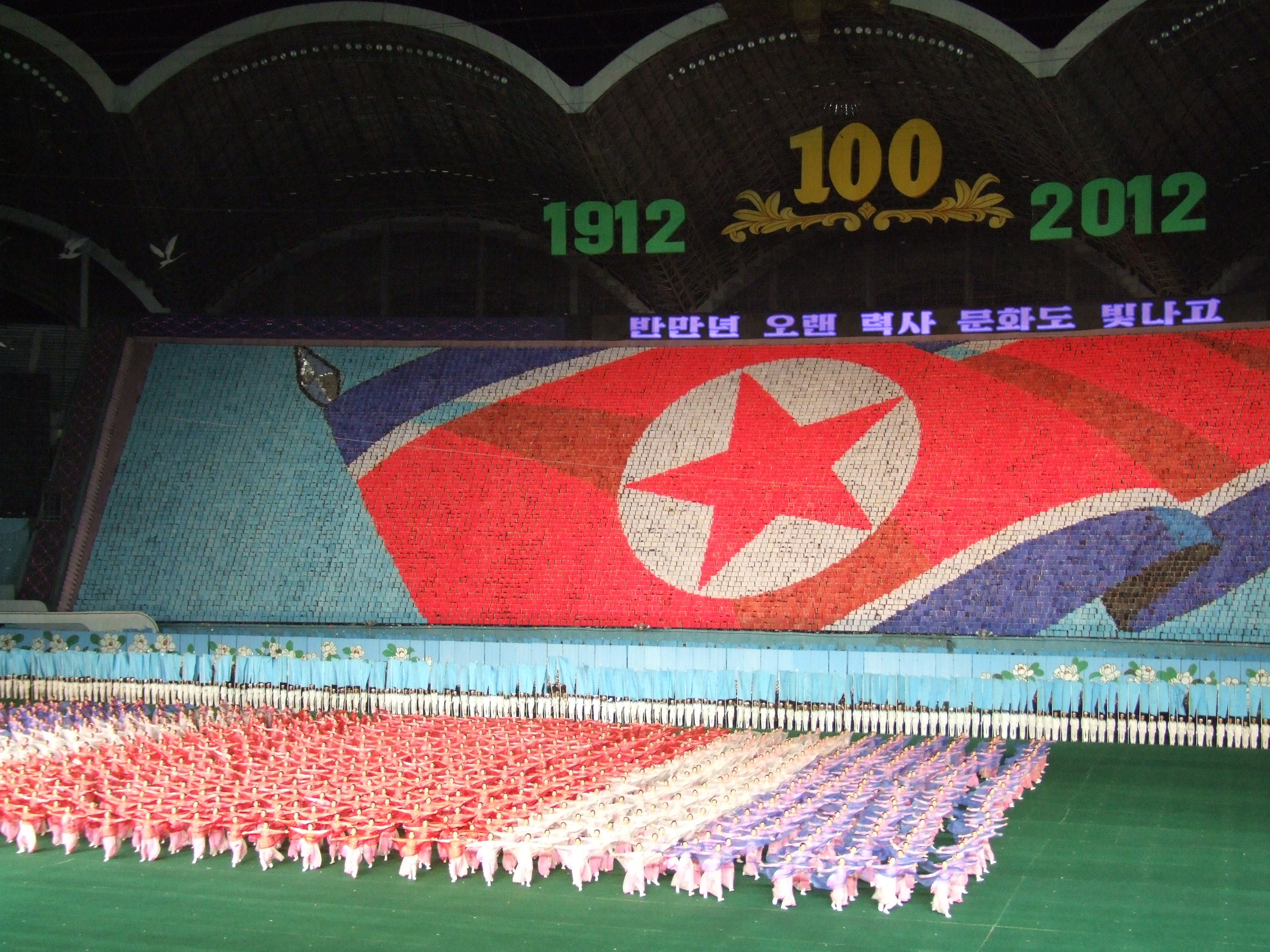 Arirang Mass Games